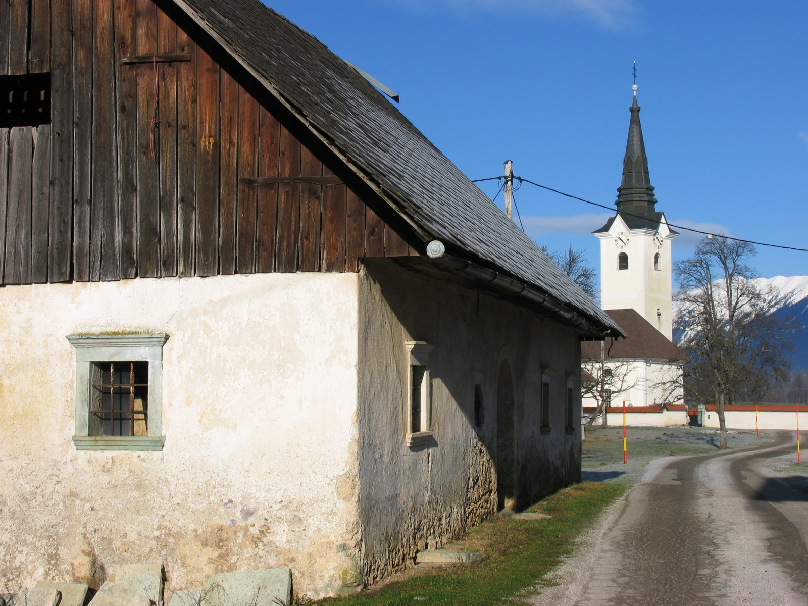 Sexton's house at Dobrava